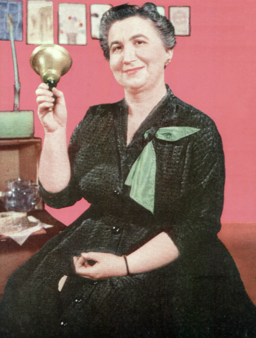 Photo of Dr. Frances Horwich, "Miss Frances of television's Ding Dong School.